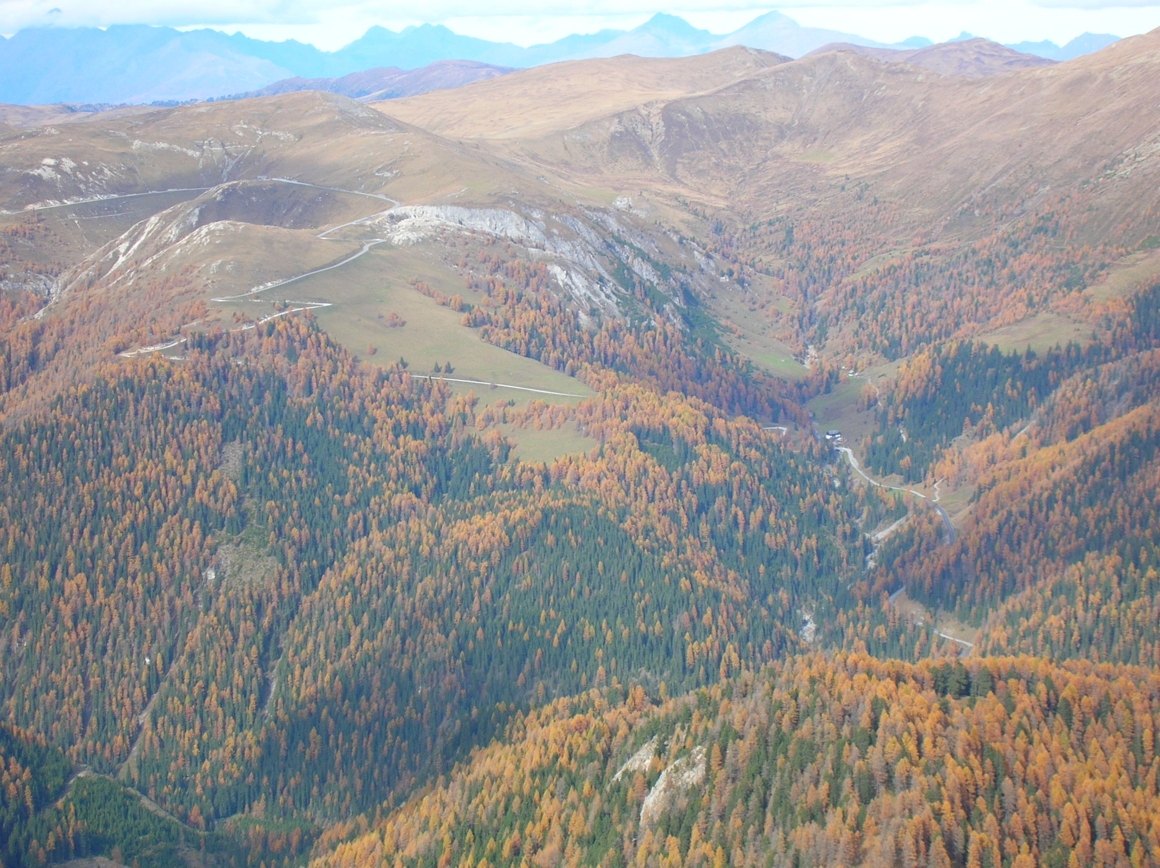 National park road with Karlbad, an old farmers spa still in use in the Nockberge mountain range, district Spittal an der Drau / Carinthia / Austria / EU. Seen from south.